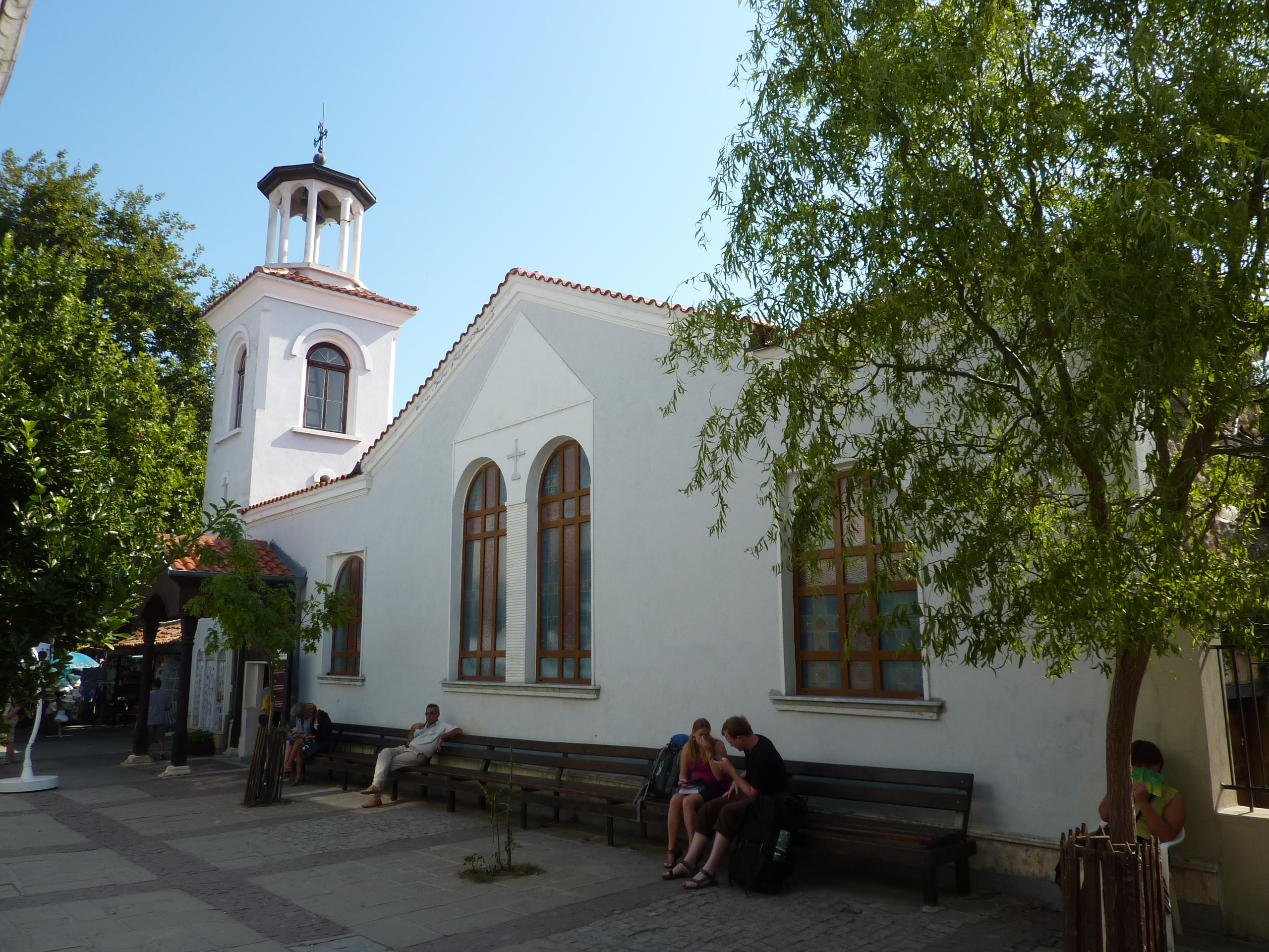 Church of Saint George in Sozopol.